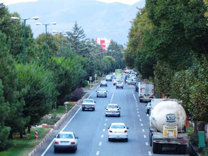 بلوار ولیعصر خوی